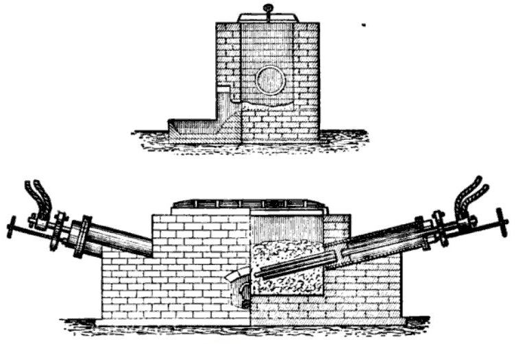 Design of the Cowles' electric smelting furnace of Cowles Electric Smelting and Aluminum Company in Lockport, New York in the United States and at Cowles Syndicate Company, Limited in Stoke-on-Trent, England